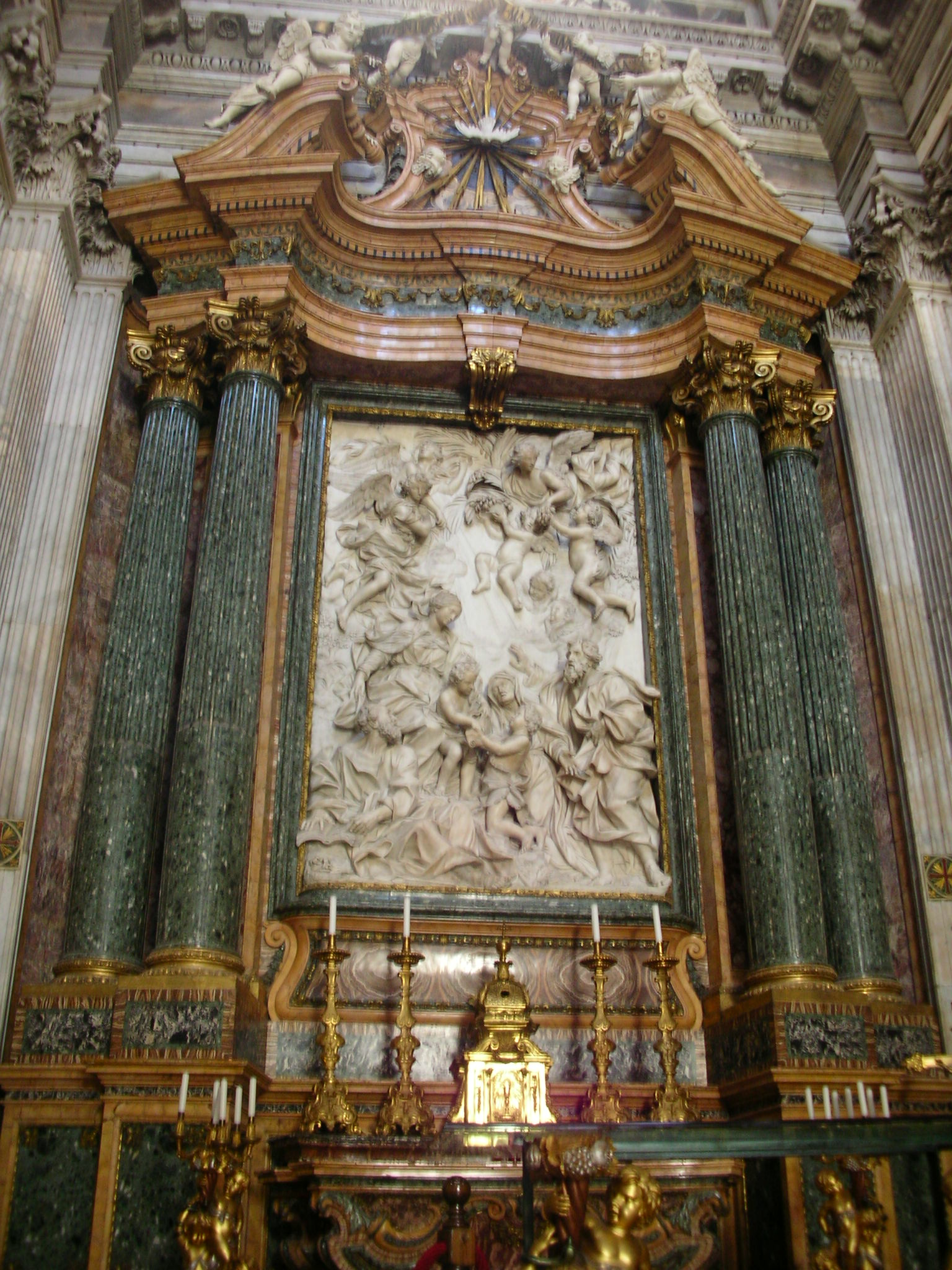 Main Altar, Sant'Agnese in Agone, Rome. Relief by Domenico Guidi